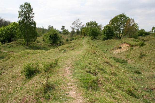 Hills and Holes, Barnack Formed by the rubble of a Roman and mediaeval quarry, Barnack Hills and Holes is one of Britain’s most important and unusual wildlife sites. Half the surviving limestone grassland in Cambridgeshire is found at the site, which is a Special Area for Conservation (SAC), to protect the orchid rich grassland. It is managed by English Nature. for more information.